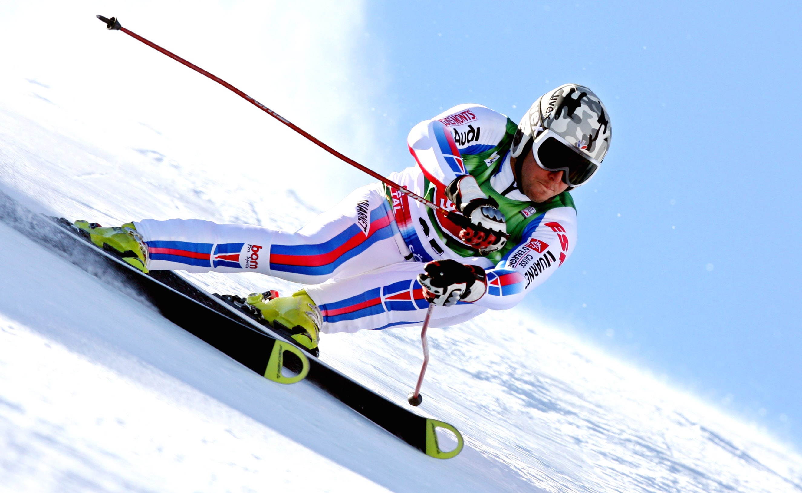 Ski Fanara Thomas Solden 2008